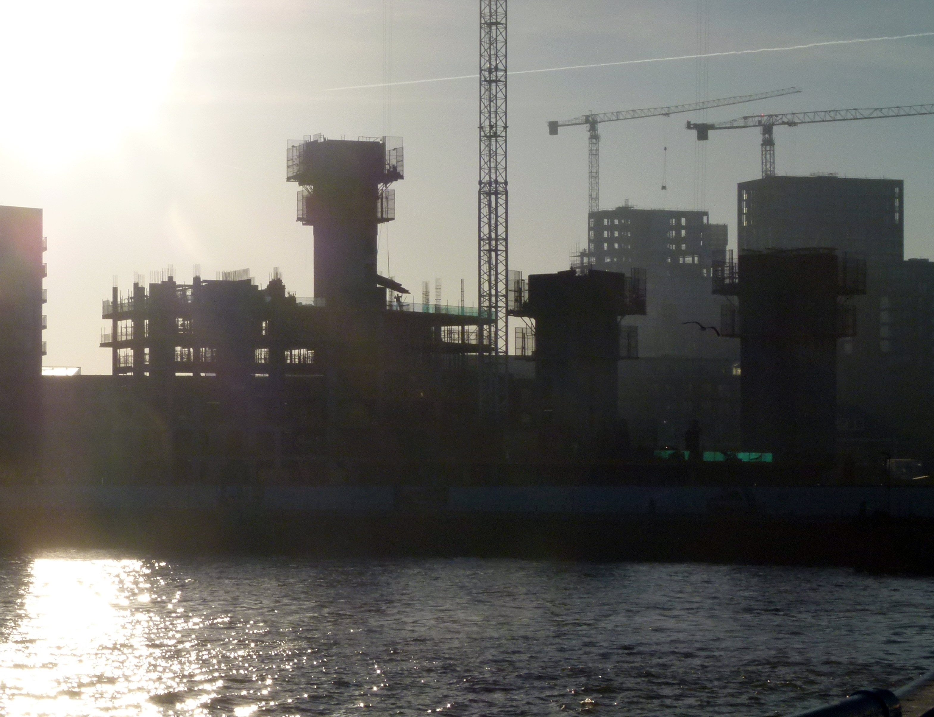 View from the Woolwich Ferry of the river Thames and the Waterfront I & II construction site, part of the Royal Arsenal Riverside development, Woolwich, southeast London, UK.